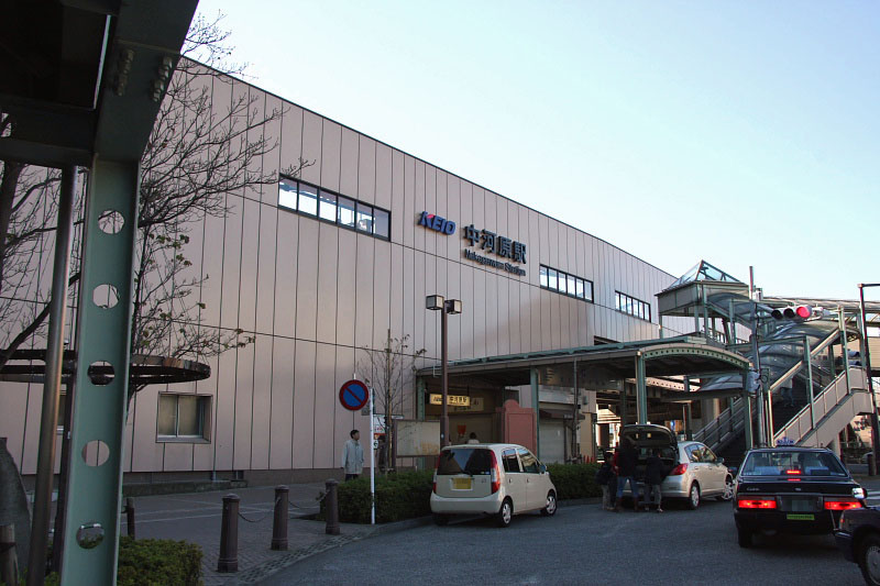 Nakagawara Station of Keio Line in Fuchu, Tokyo, Japan